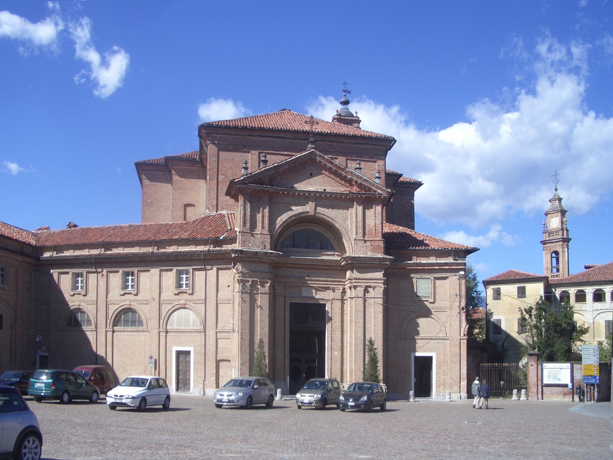 Agliè, Parish Church (Madonna della Neve church) 1773-77 (Architect =Ignazio Bignago di Borgaro)